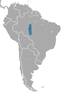 Ashy Black Titi (Callicebus cinerascens) range